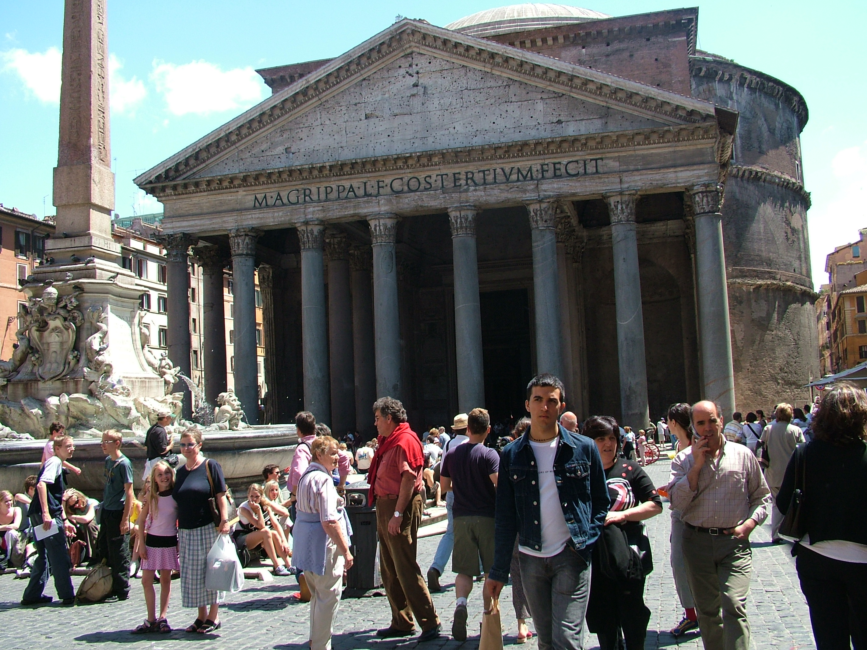 Outside view of Pantheon Photographed by: Per Palmkvist Knudsen